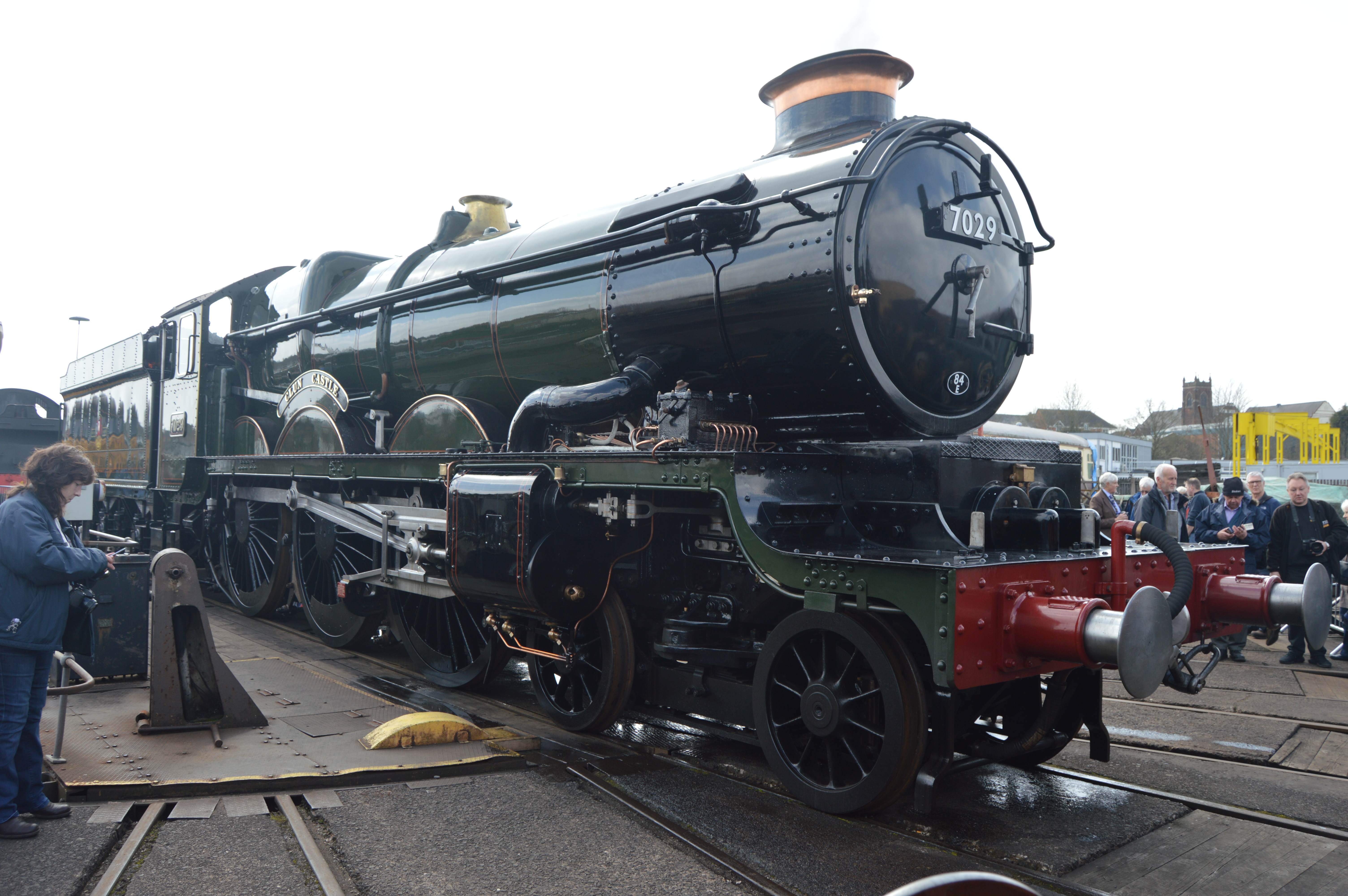 Recently returned to service following an overhaul at Tyseley Locomotive Works and now awaiting it's return to the mainline 7029 Clun Castle is seen steaming away on the turntable at Tyseley Loco Works during a photoshoot.